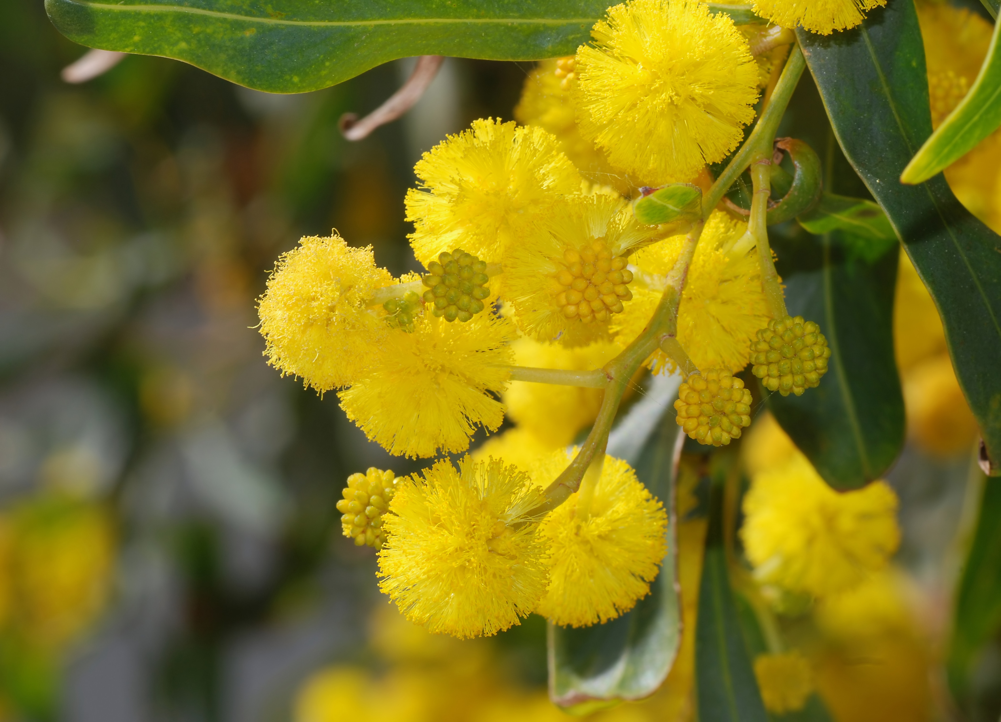 Acacia saligna (Acacia) Camera: Nikon D80 with Tokina AF 100 Exposure: aperture priority, F/18, 1/60, ISO 100